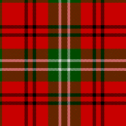 Morrison Red Tartan